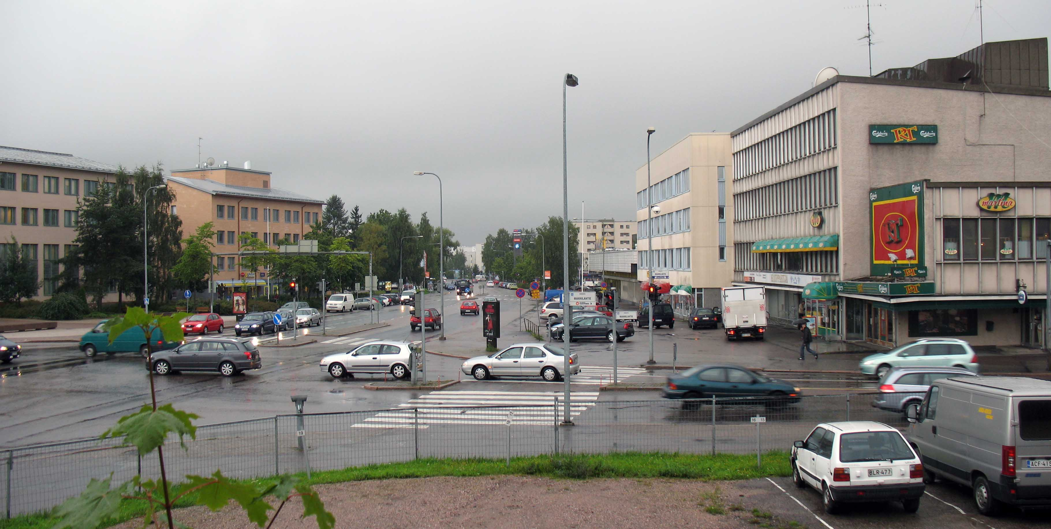 Helsingintie, downtown, Järvenpää, Finland